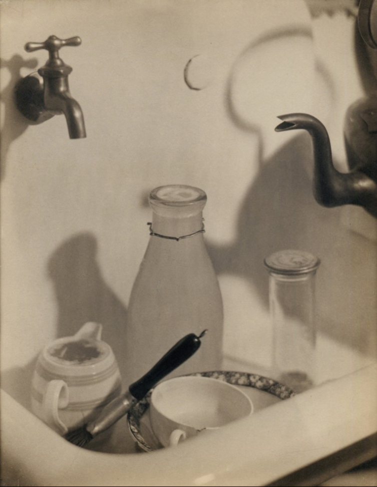 Margaret Watkins,The Kitchen Sink, 1919 Vintage platinum/palladium print 8 1/4 × 6 1/4 in 21 × 15.9 cm